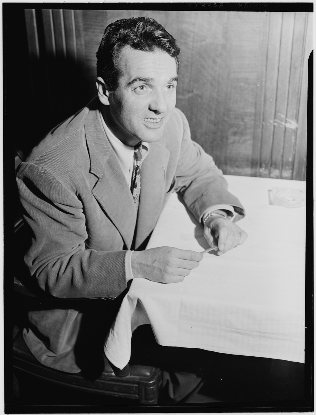 Gene Krupa, 400 Restaurant, New York, N.Y., ca. June 1946 (Photograph by William P. Gottlieb)